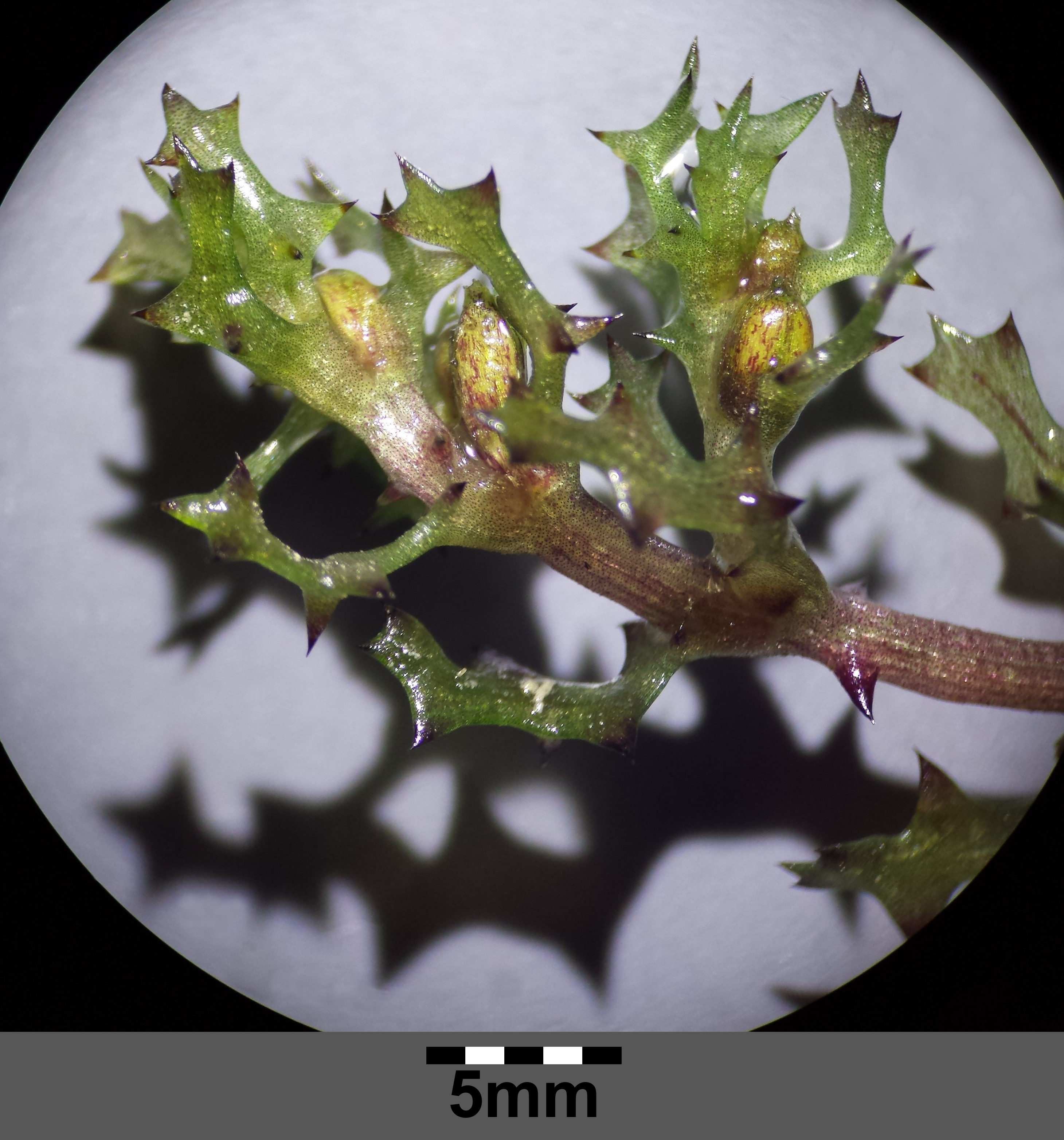 Infructescence Taxonym: Najas marina ss Fischer et al. EfÖLS 2008 ISBN 978-3-85474-187-9 Location: Alte Donau, Vienna-Floridsdorf - ca. 160 m a.s.l. Habitat: oxbow lake